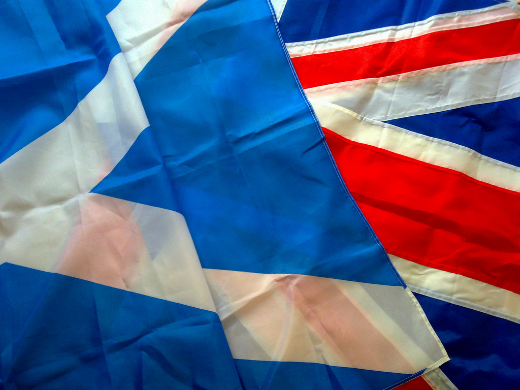 The Saltire and Union Flag, representing Scotland and the United Kingdom.